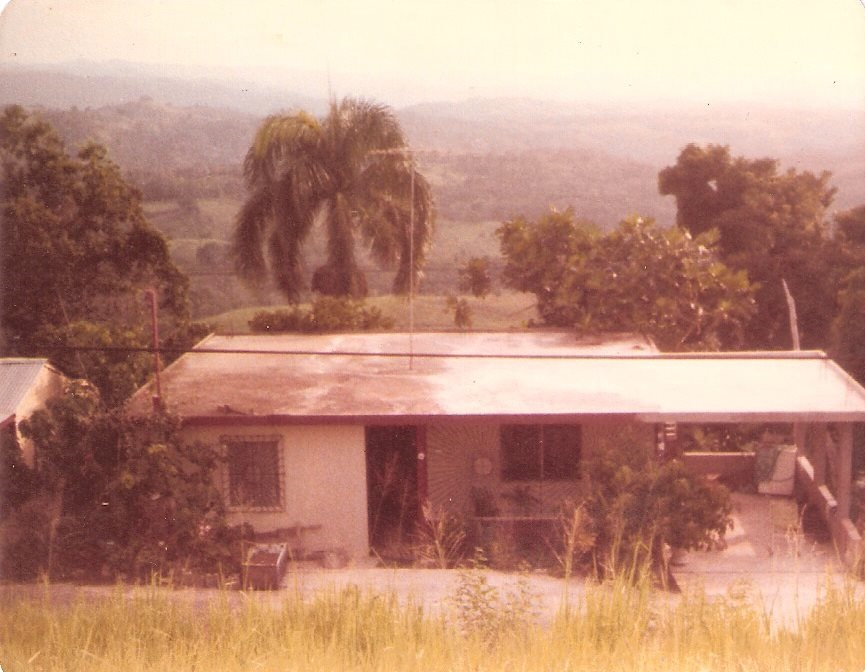 San Sebastián, Puerto Rico 1980. The home is right on the PR-111 highway and is built on the cliffside. Behind the home is the top of a palm tree and the top of an orange tree.